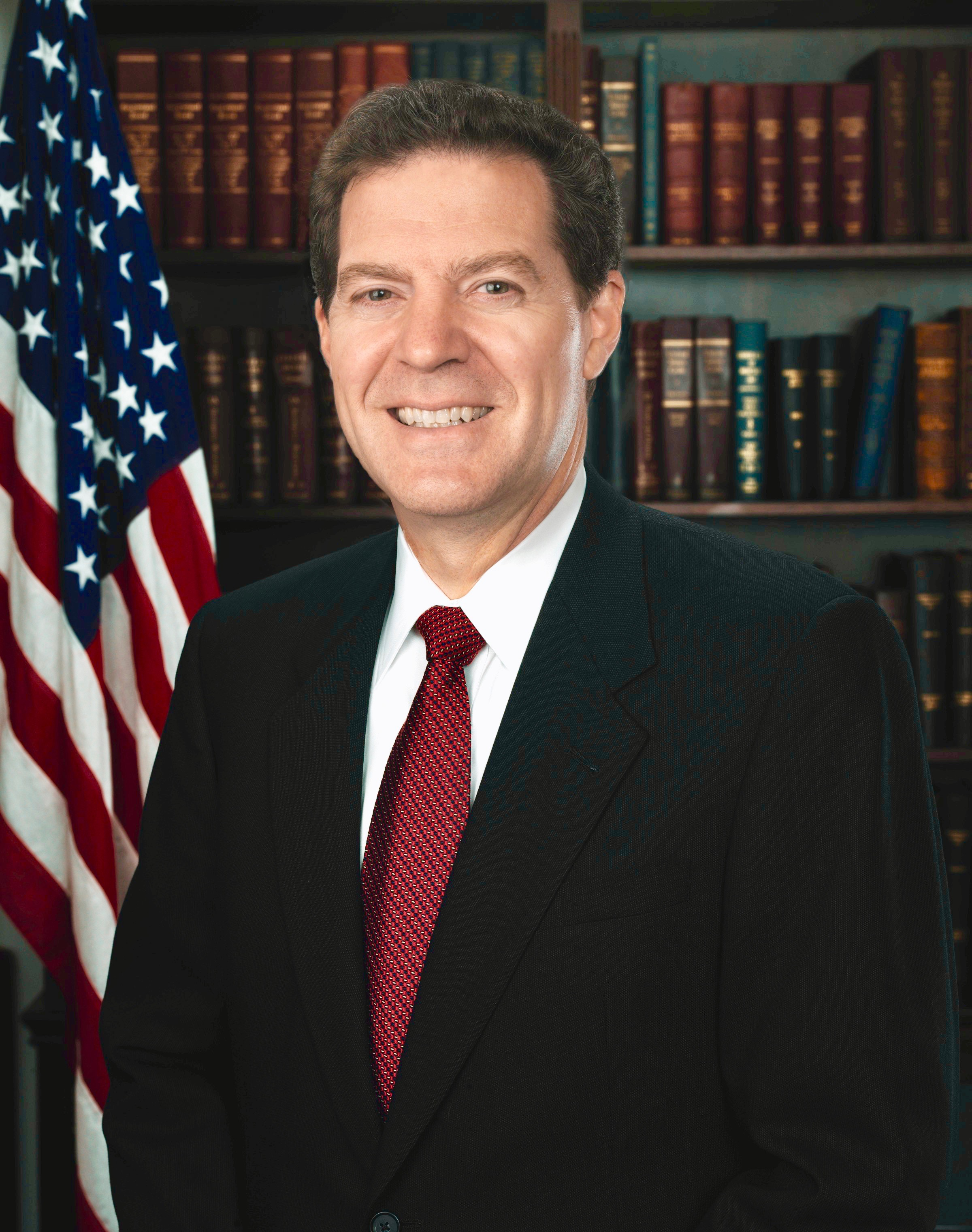 Sam Brownback, United States Senator photo portrait.